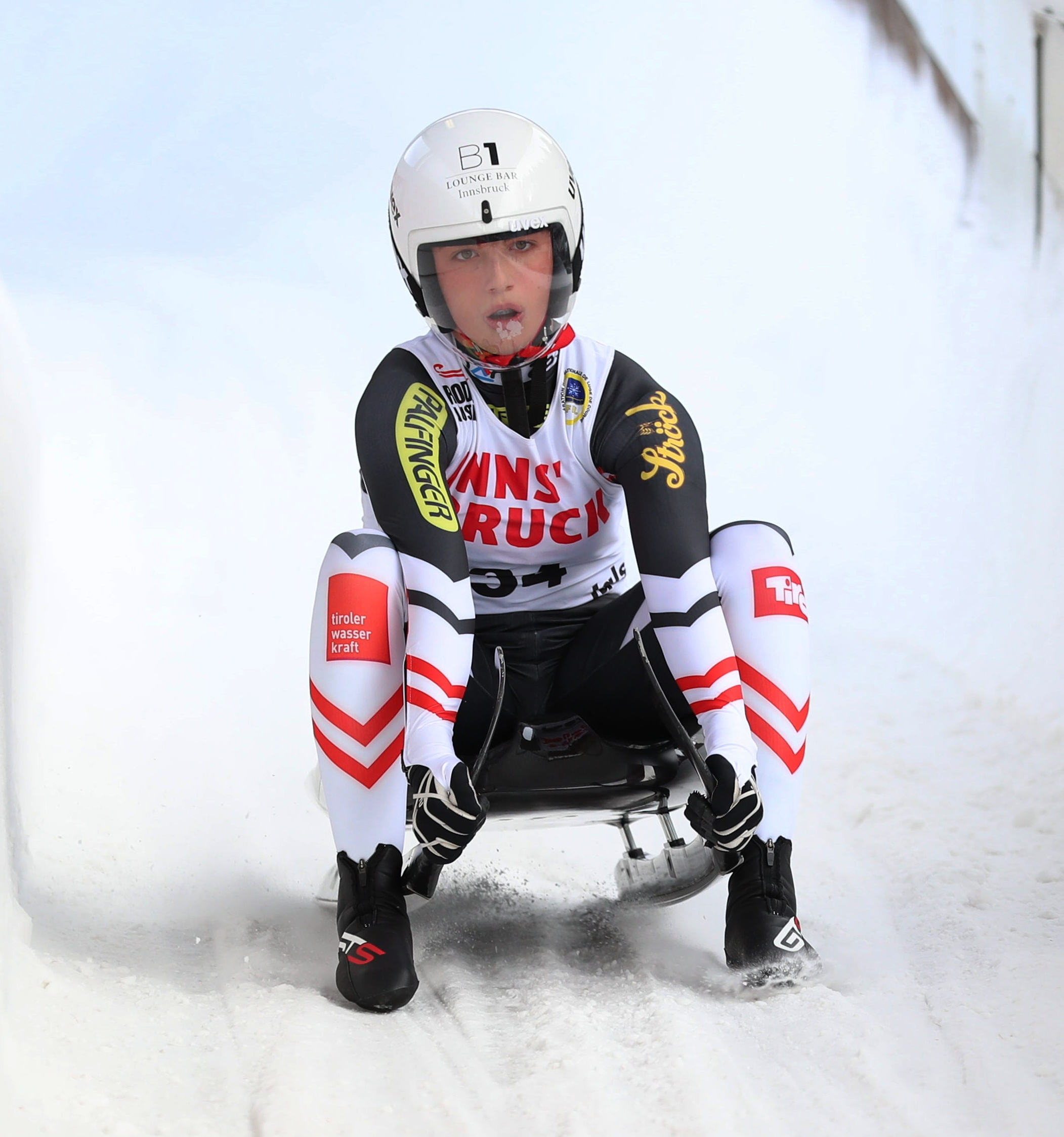 Women's Nations Cup race at the 2018/19 Luge World Cup in Innsbruck-Igls